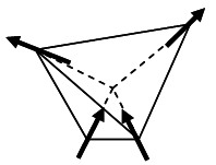 (Spin ice) This is my own made picture and i license it to be used under a free license.